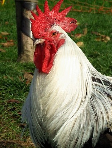 Dorking chicken breed